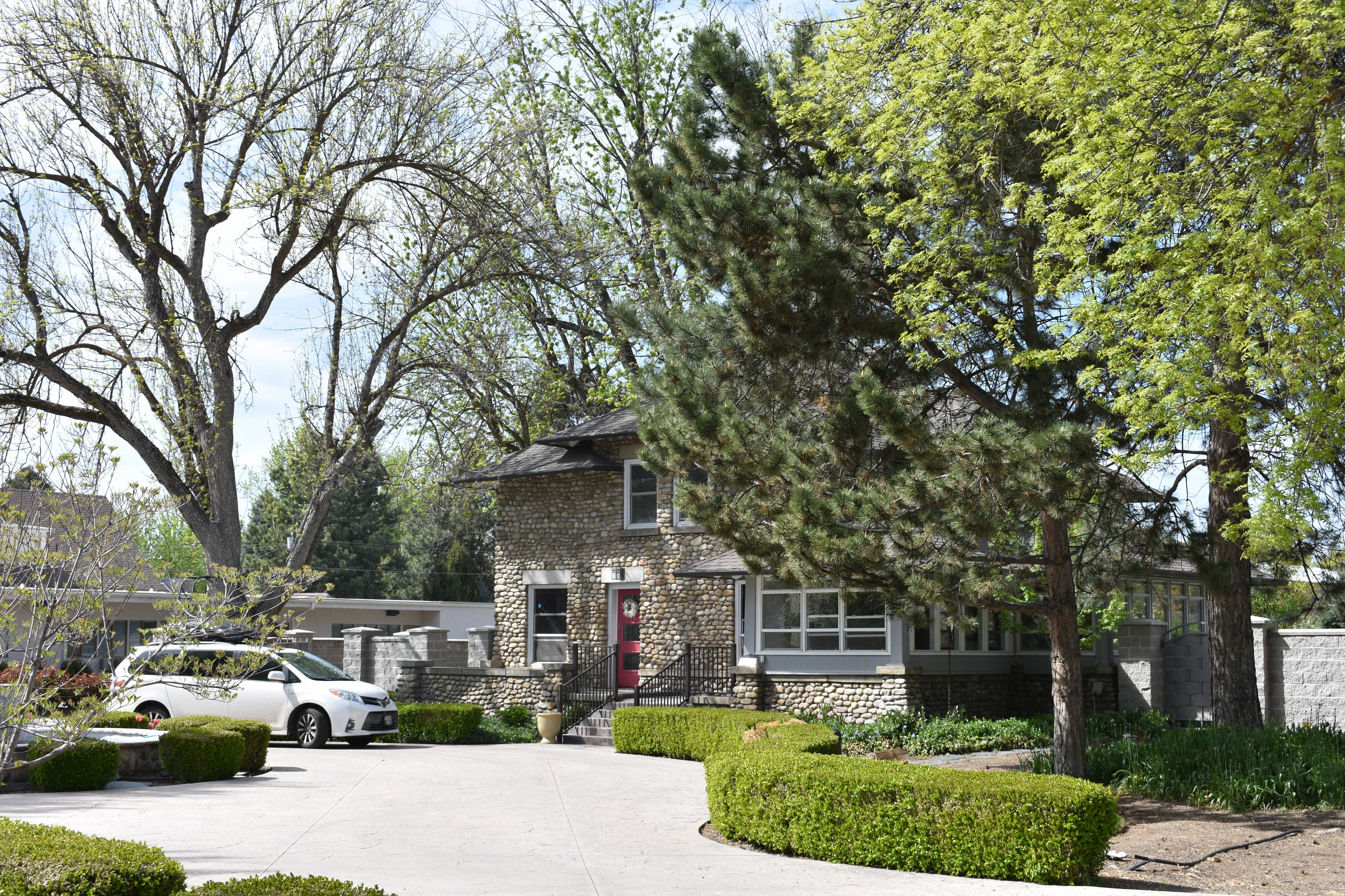 The O.F. Short House near Eagle, Idaho, was constructed in 1906 and is listed on the National Register of Historic Places.